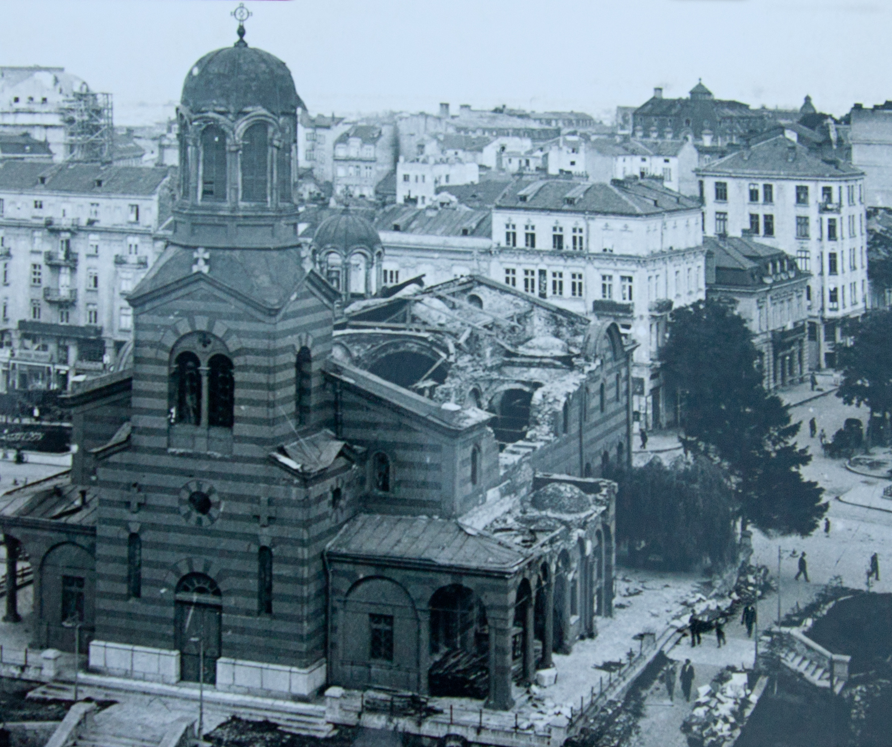 'St. Kral/ Nedelya' Cathedral in Sofia after the Communist assault, April 1925.